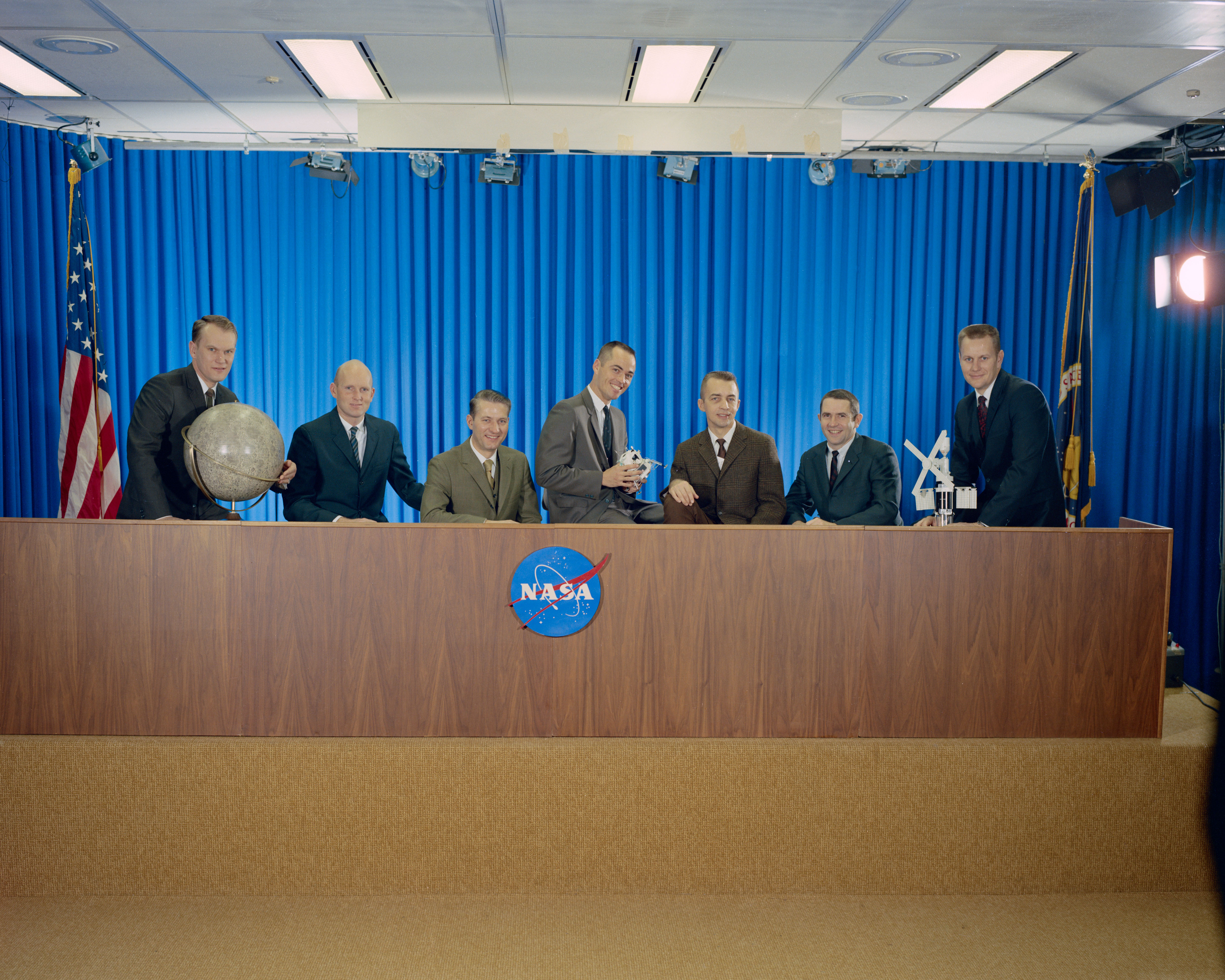 The seventh group of NASA astronauts, selected in 1969 after the cancellation of the Air Force's Manned Orbiting Laboratory project. The astronauts are, from left to right, USAF Major Karol J. Bobko, USAF Major C. Gordon Fullerton, USAF Major Henry W. Hartsfield, USN Lt. Cdr Robert L. Crippen, USAF Major Donald H. Peterson, USN Lt. Cdr Richard H. Truly, and USMC Major Robert F. Overmyer.